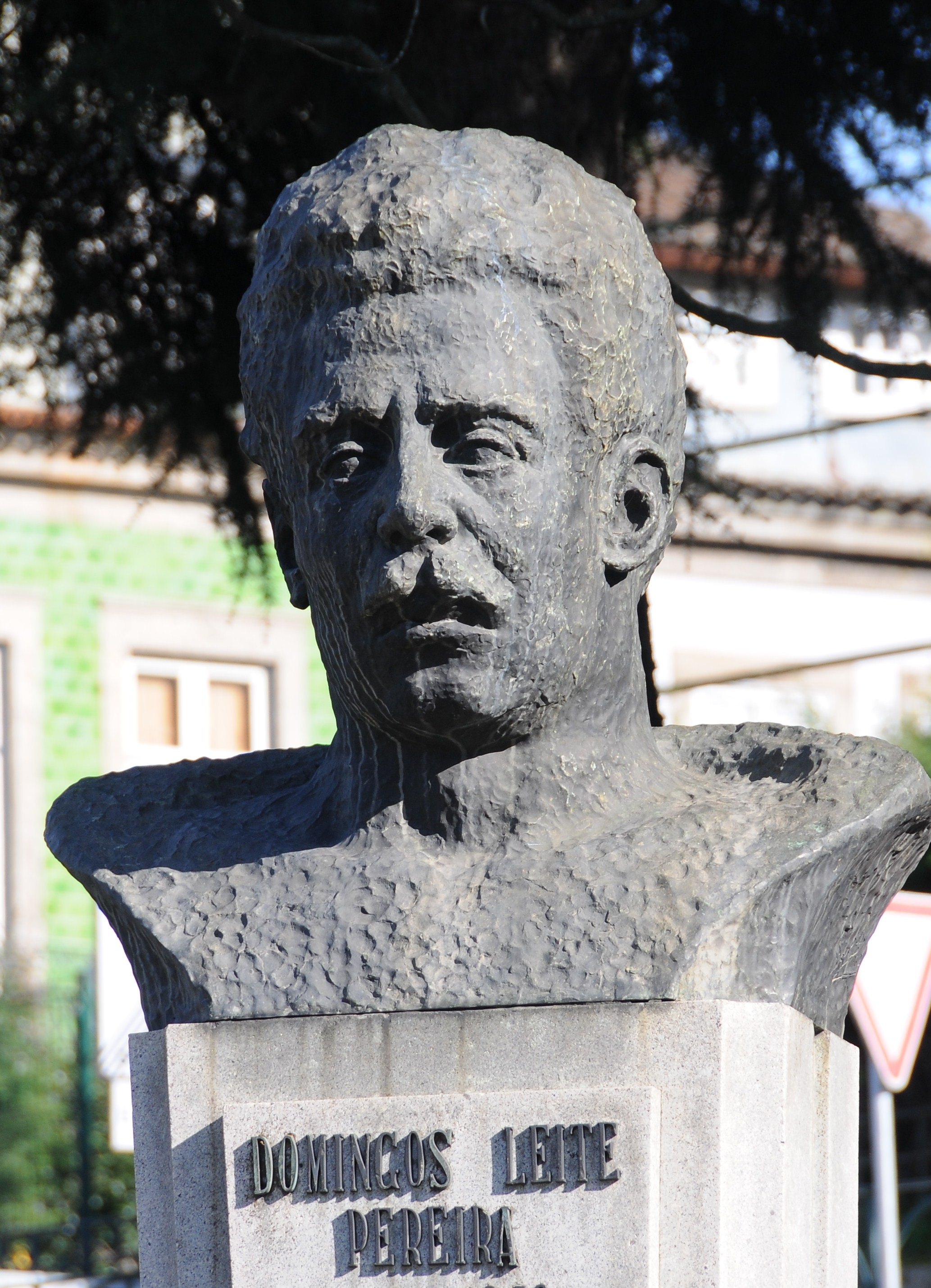 Bust of Domingos Leite Pereira in Largo de Infias, São Vicente, Braga, Portugal.